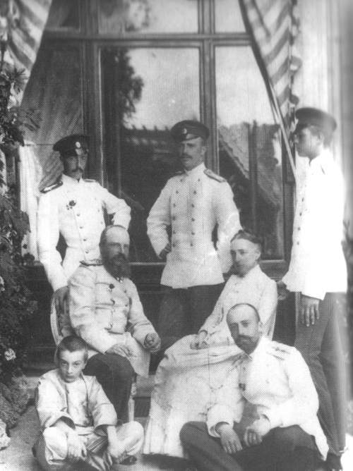 The family of Grand duke Michael Nicholaievich